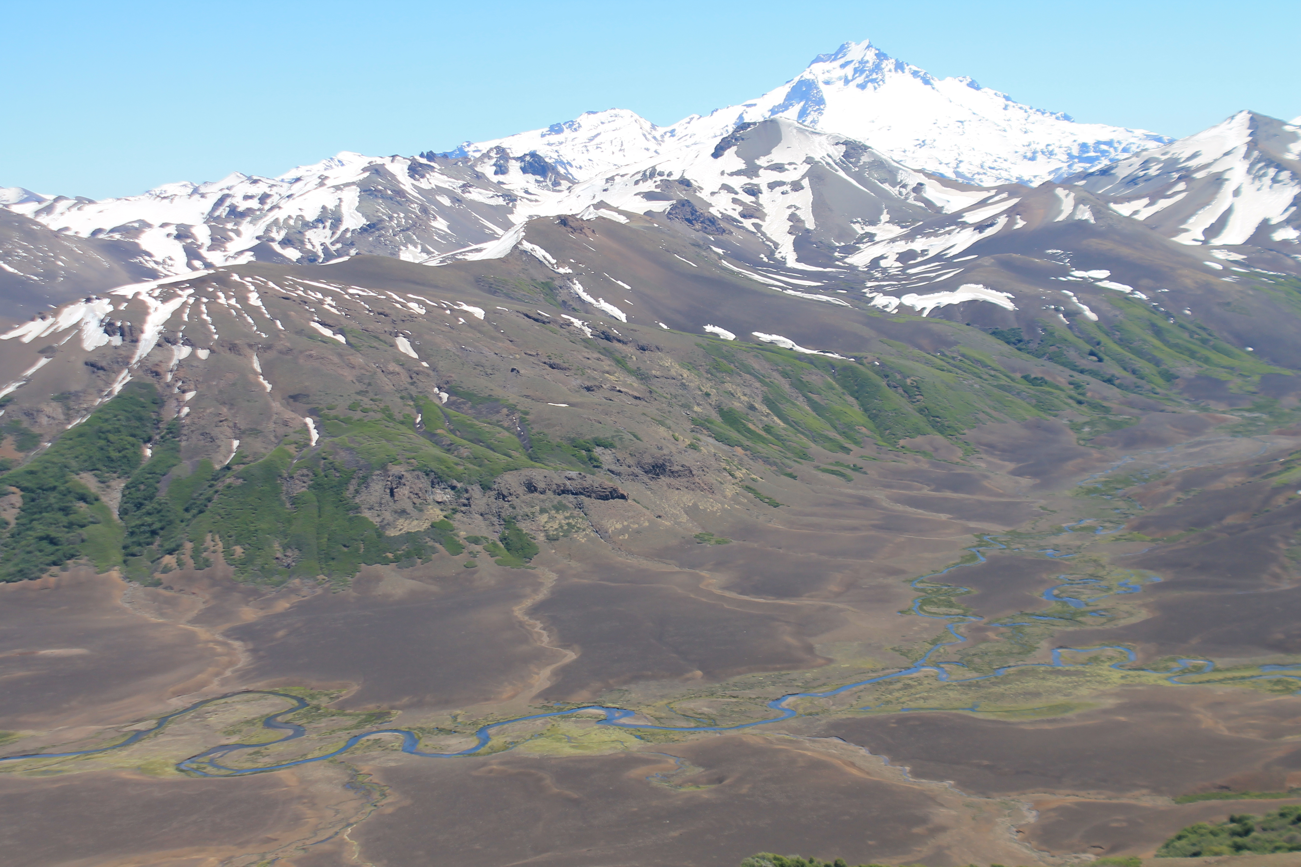 Un hermoso paisaje en chile en la frontera con argentina